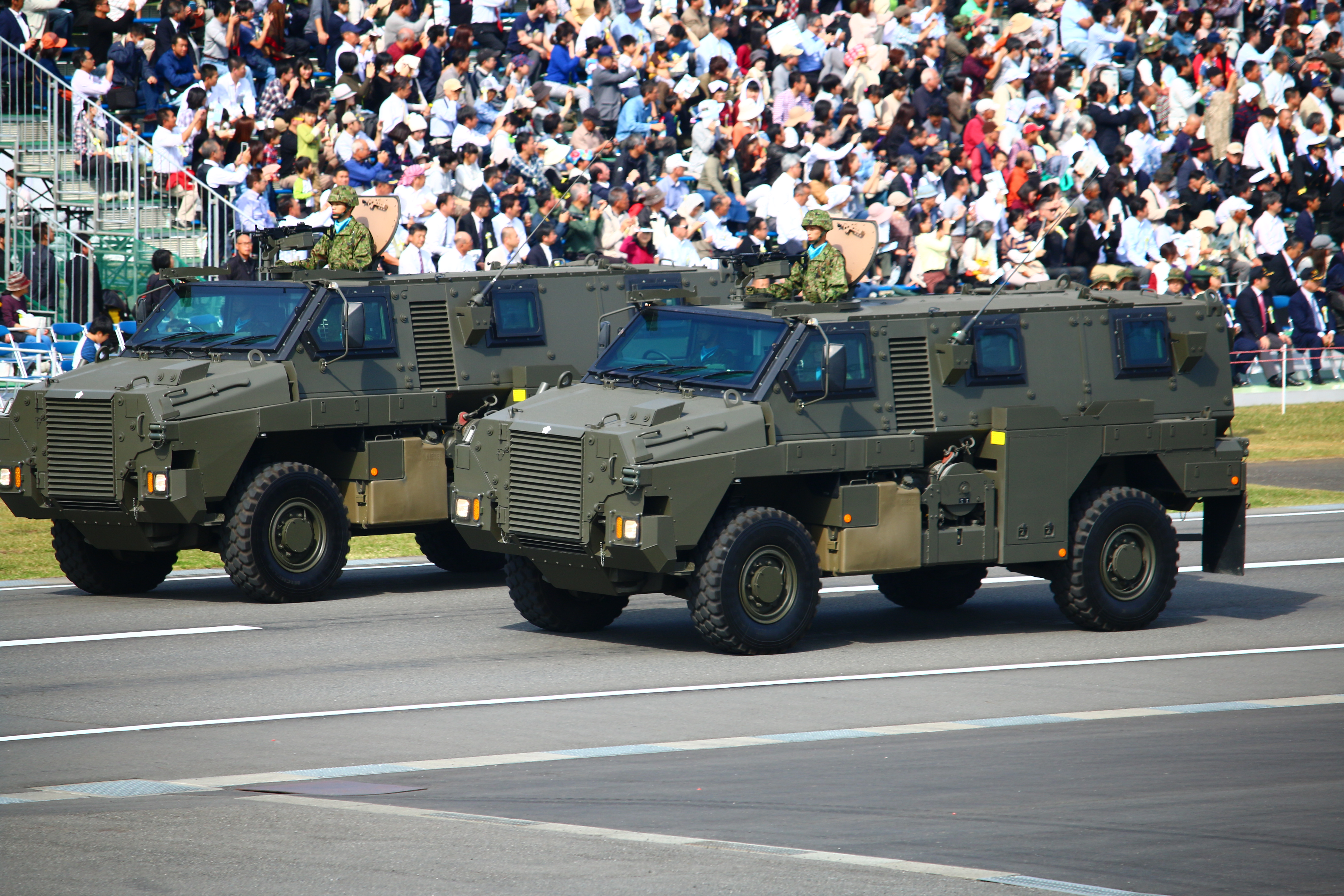 JGSDF Bushmaster Protected Mobility Vehicle.